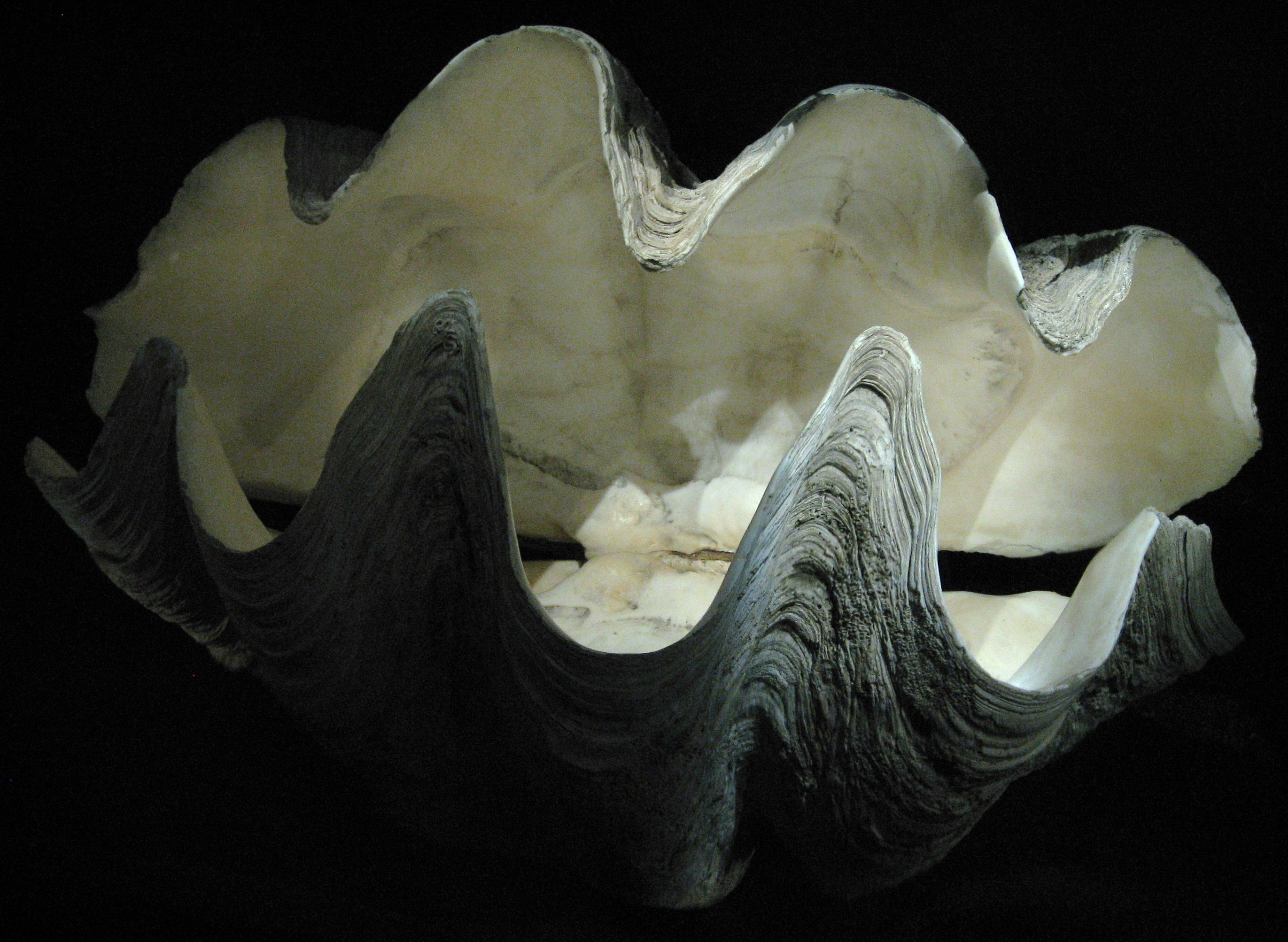 Tridacna gigas in Exposition temporaire: Perles